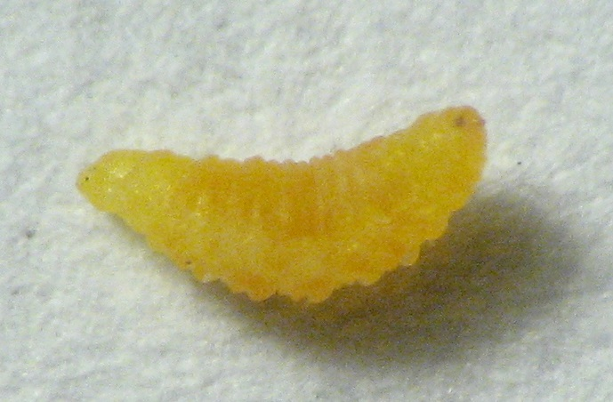 Larva of gall maker on Euthamia graminifolia, Dasineura carbonaria.